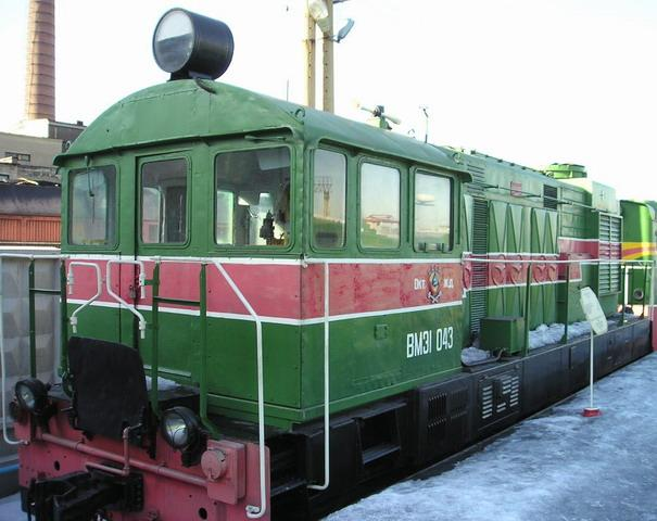 The exhibit of the open-air railway museum in former Varshavsky terminal in Saint-Petersburg, Russia. Was built in 1956 by "Ganz-Mavag" factory, Hungary for USSR. Shunting diesel locomotive VME1